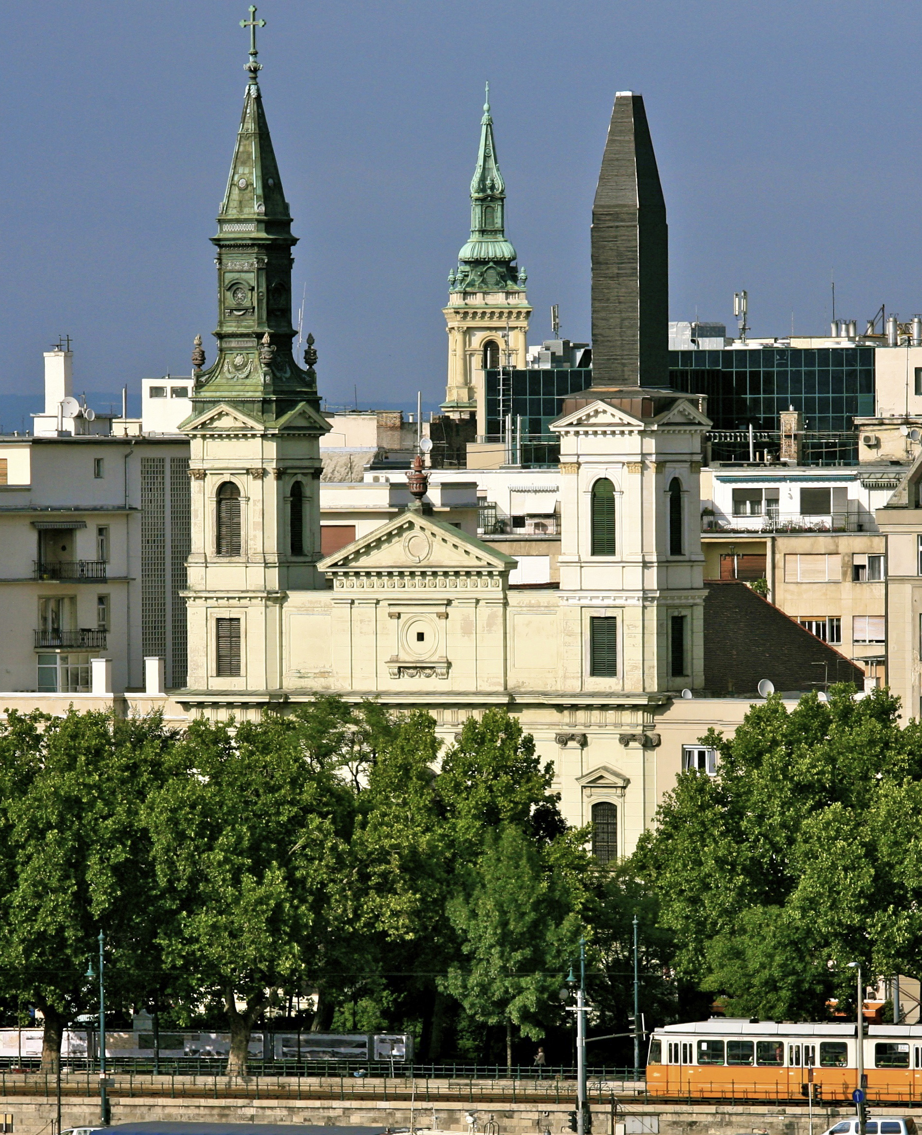 Aspects of Budapest